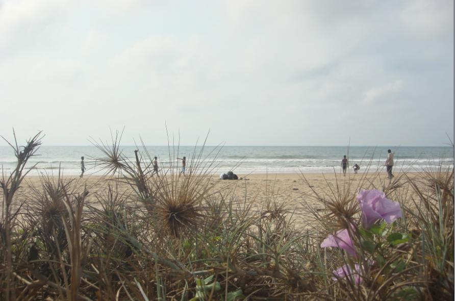 this picture was taken by me in chirala beach on 17 MARCH 2012 in my vocation